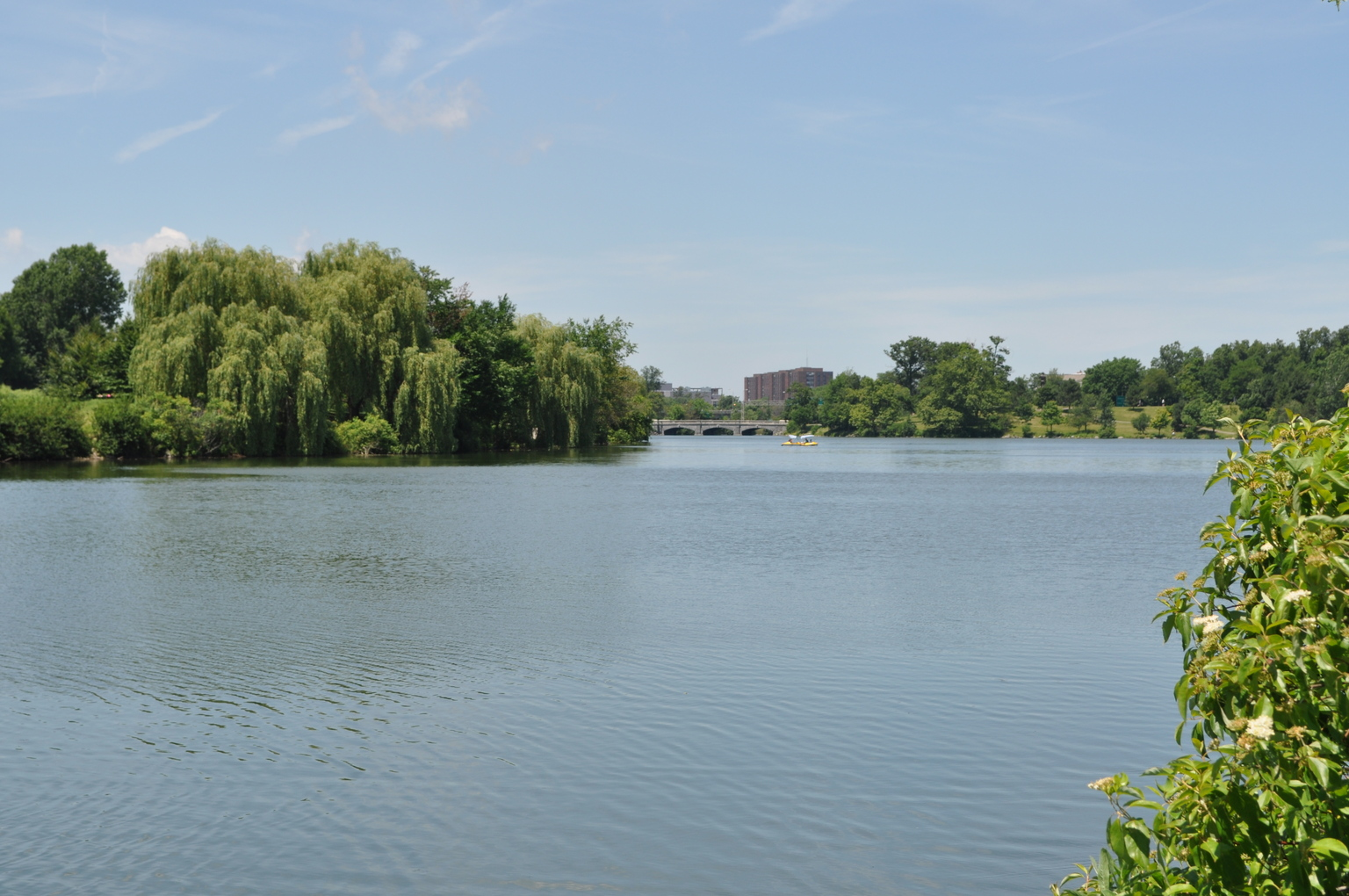 Lake within Delaware PaRK, bUFFALO, New York